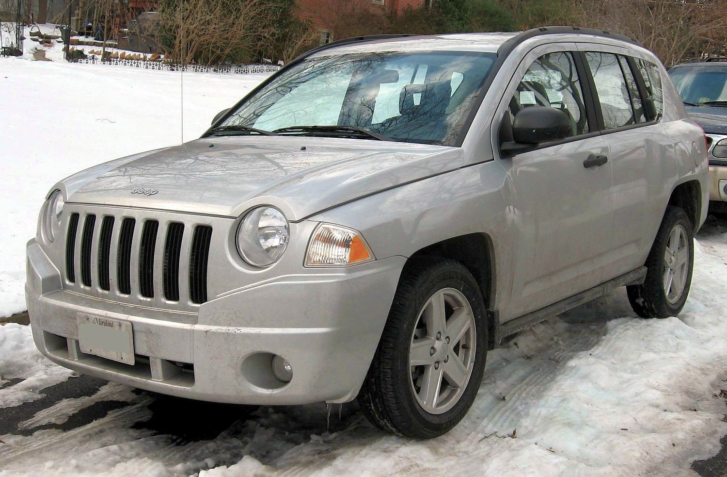 2007 Jeep Compass photographed in USA.